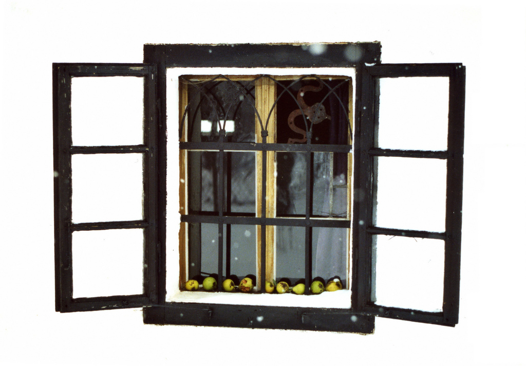 Christiaan Tonnis ~ Thomas Bernhard's House #1 / Photography (1992) / Video (2006) At the 25th of December 1992 I traveled to writer Thomas Bernhard and made some photographs of his house, which is located in Ohlsdorf-Obernathal, Austria. Obernathal consists of three barnyards and one chapel. I crossed a wood, and suddenly I was there. At the 5th of July 2006 I used these photographs to create a video called "Thomas Bernhard's House - A Visit".